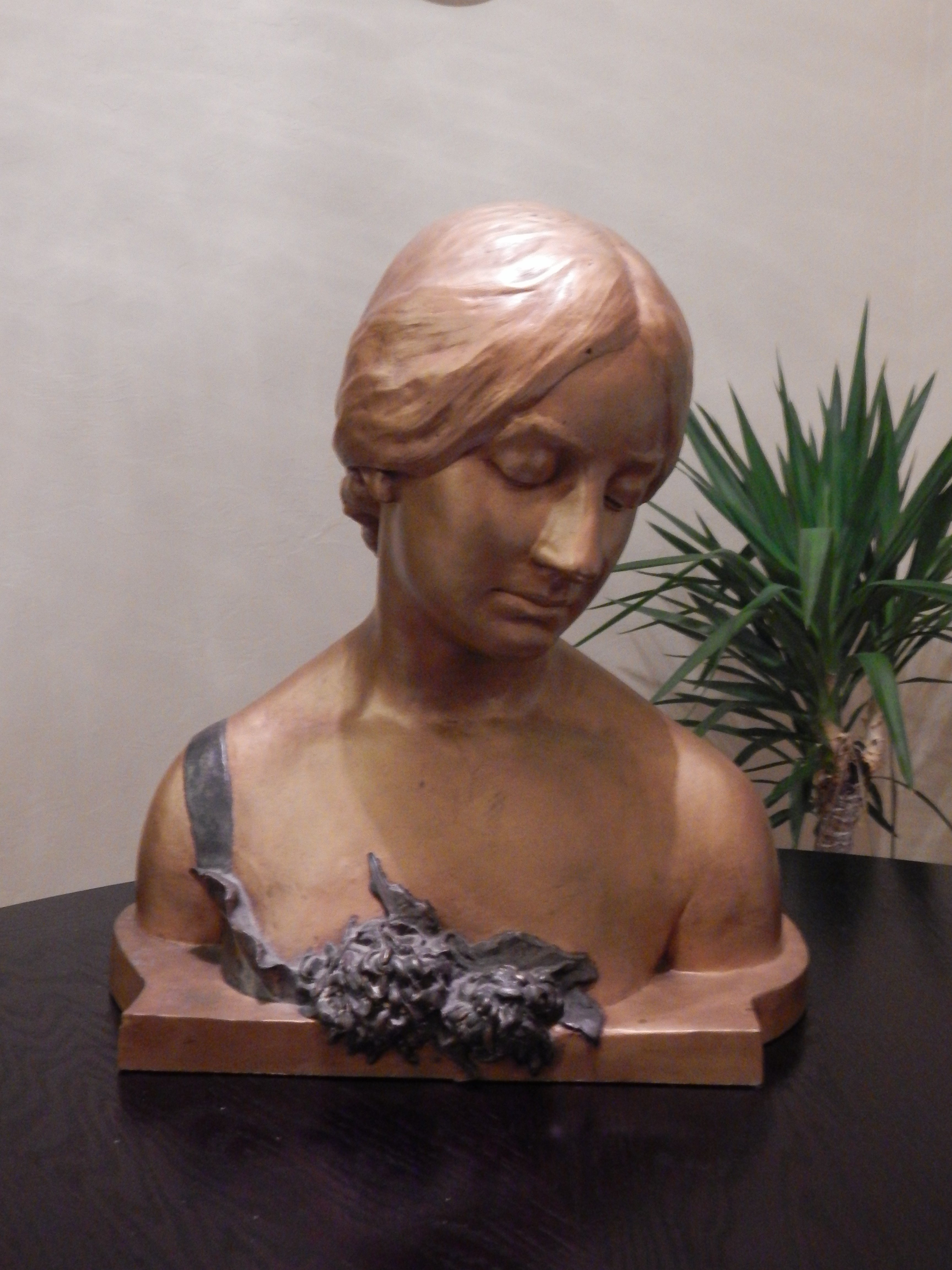 Attributed to Marie-Antoinette Demagnez de la Rochefoucauld, Bust of a Woman, circa 1898, bronze, unknown location.